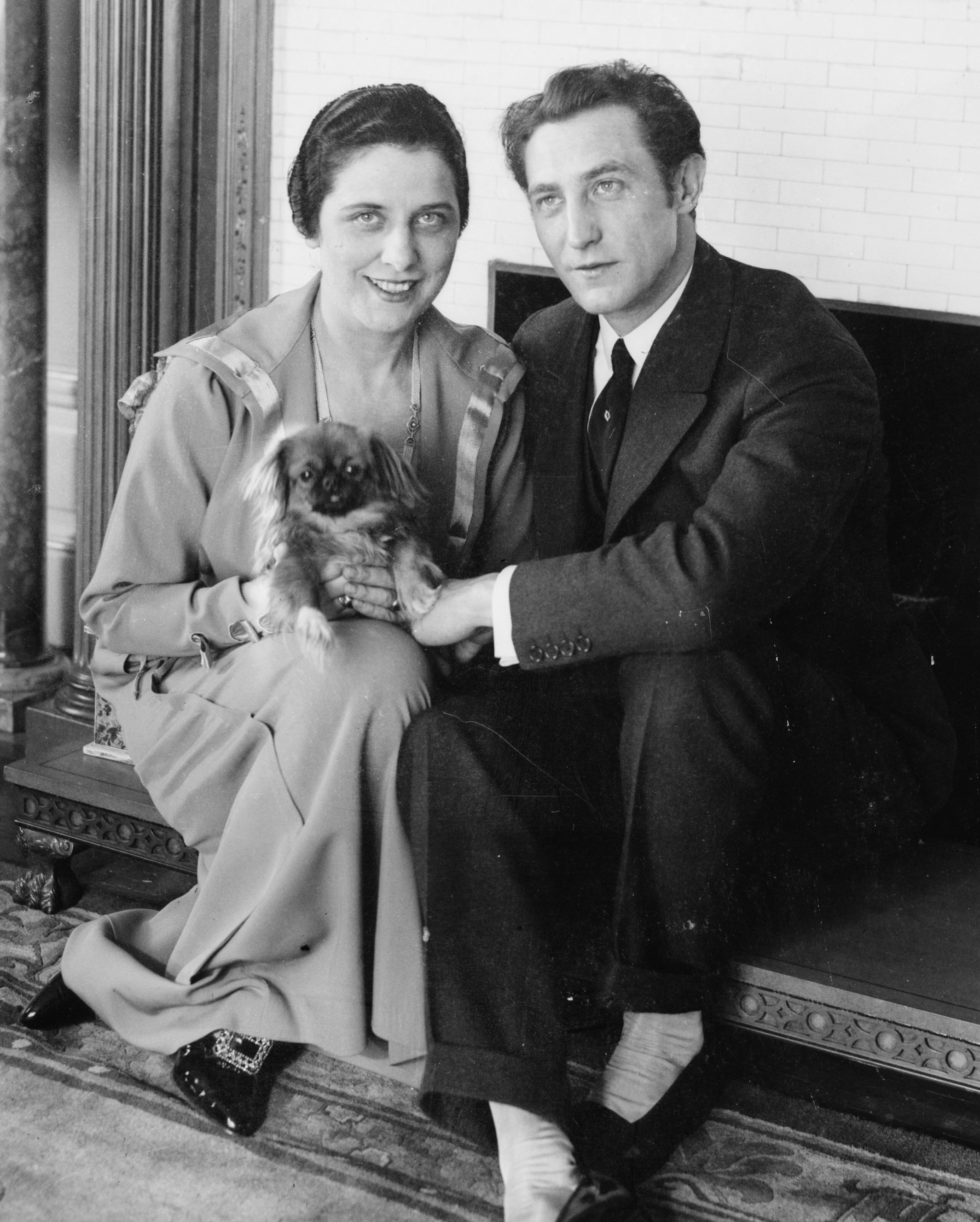 Title: Farrar & Lou Tellegen Abstract/medium: 1 negative : glass ; 5 x 7 in. or smaller.